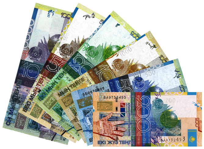 Various banknotes of the Kazakh currency Tenge